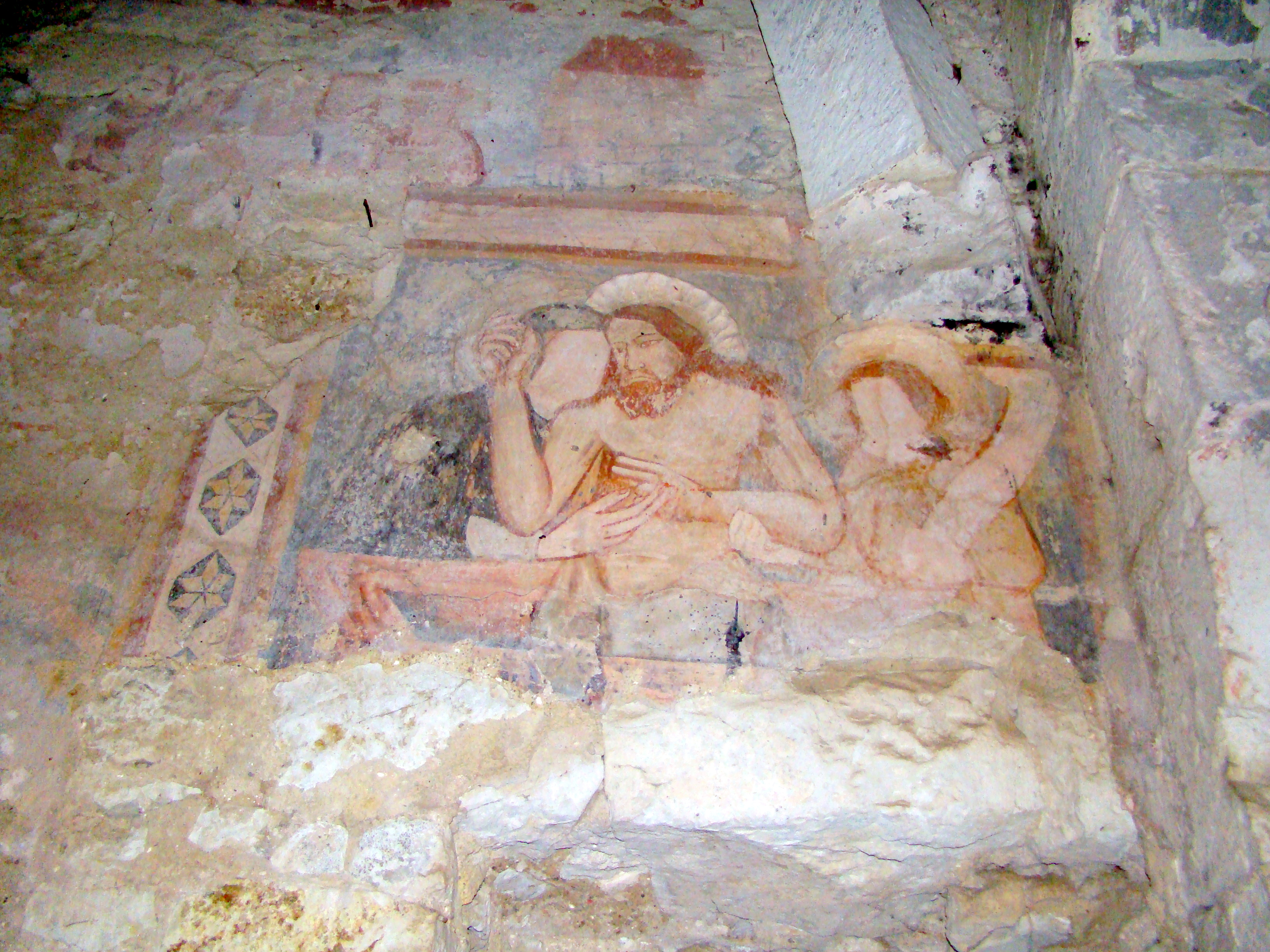 Fortified church in Homorod, Brașov County, Romania